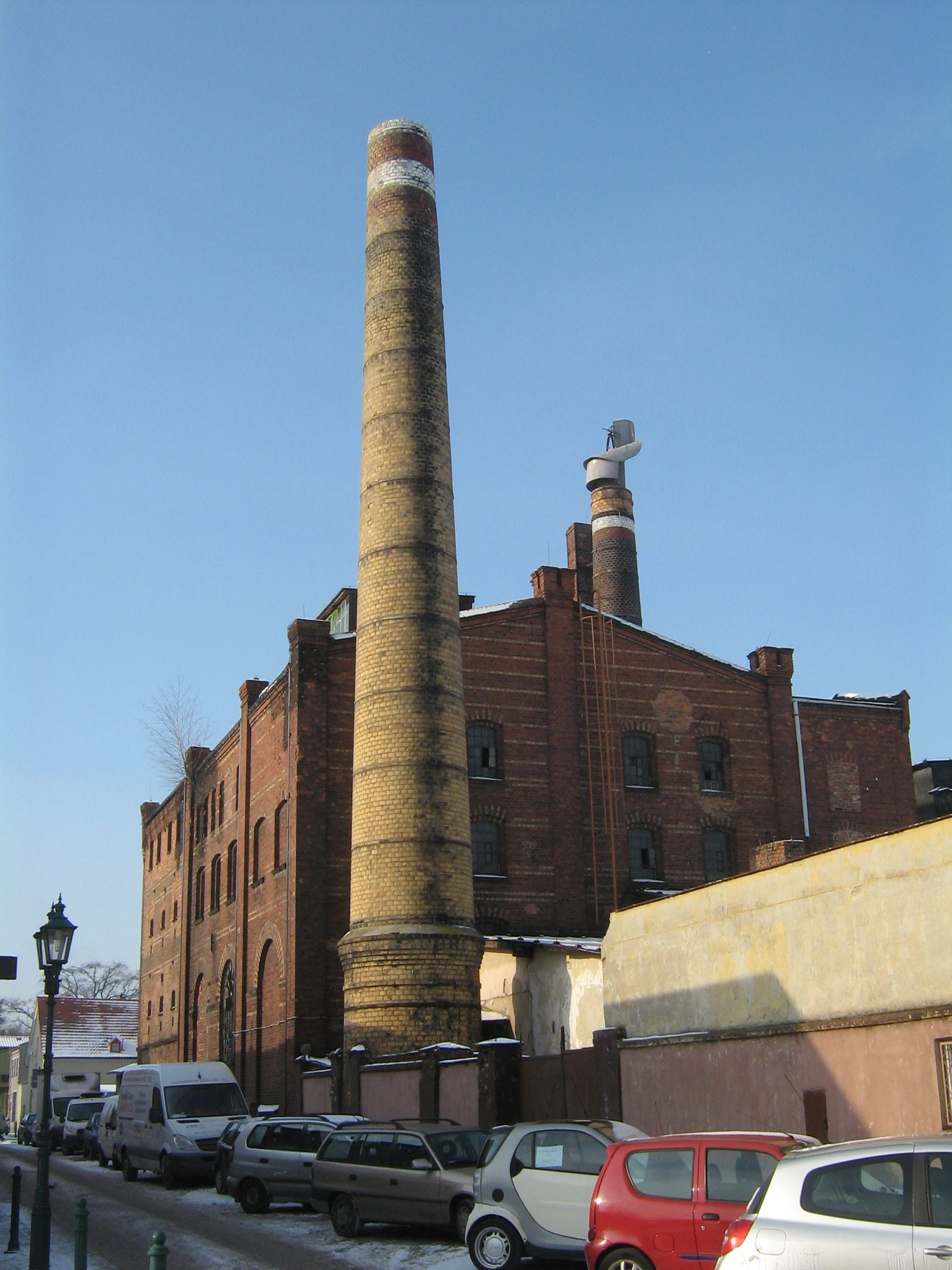 Old brewery building - Grodzisk Wielkopolski, Poland